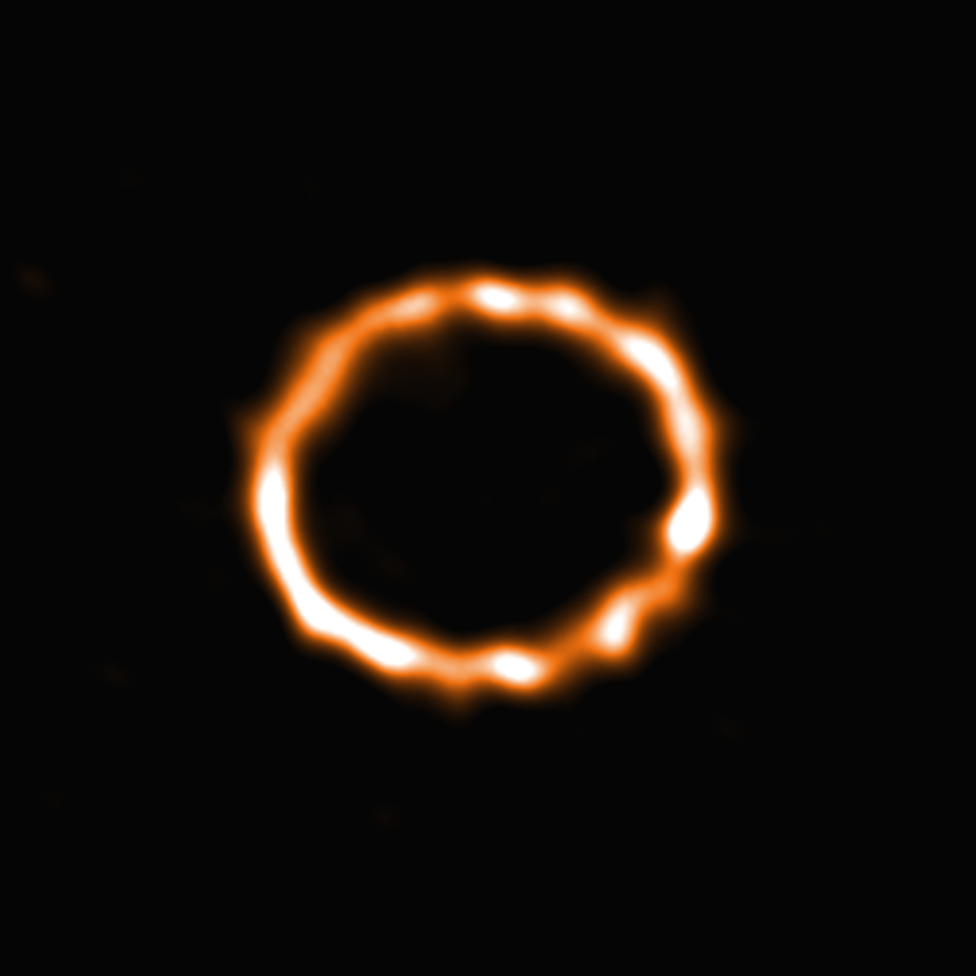 Using 39 of the 66 antennas of the Atacama Large Millimeter/submillimeter Array (ALMA), located 5000 metres up on the Chajnantor plateau in the Chilean Andes, astronomers have been able to detect carbon monoxide (CO) in the disc of debris around an F-type star. Although carbon monoxide is the second most common molecule in the interstellar medium, after molecular hydrogen, this is the first time that CO has been detected around a star of this type. The star, named HD 181327, is a member of the Beta Pictoris moving group, located almost 170 light-years from Earth. Until now, the presence of CO has been detected only around a few A-type stars, substantially more massive and luminous than HD 181327. Using the superb spatial resolution and sensitivity offered by the ALMA observatory astronomers were now able to capture this stunning ring of smoke and map the density of the CO within the disc. The study of debris discs is one way to characterize planetary systems and the results of planet formation. The CO gas is found to be co-located with the dust grains in the ring of debris and to have been produced recently. Destructive collisions of icy planetesimals in the disc are possible sources for the continuous replenishment of the CO gas. Collisions in debris discs typically require the icy bodies to be gravitationally perturbed by larger objects in order to reach sufficient collisional velocities. Moreover, the derived CO composition of the icy planetesimals in the disc is consistent with the comets in our Solar System. This possible secondary origin for the CO gas suggests that icy comets could be common around stars similar to our Sun which has strong implications for life suitability in terrestrial exoplanets. The results were published in the journal Monthly Notices of the Royal Astronomical Society under the title “Exocometary gas in the HD 181327 debris ring” by S. Marino et al.